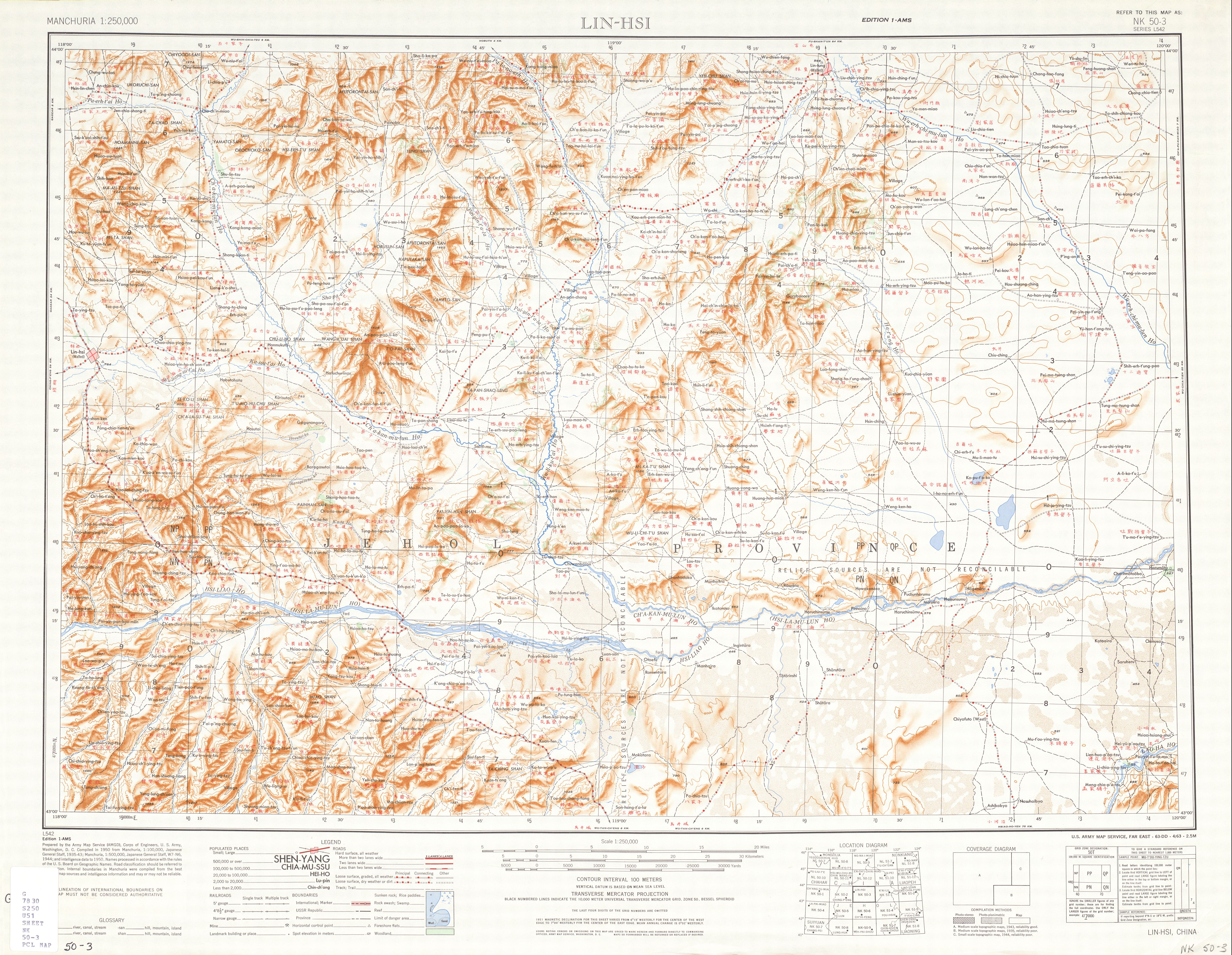 Manchuria AMS Topographic Maps